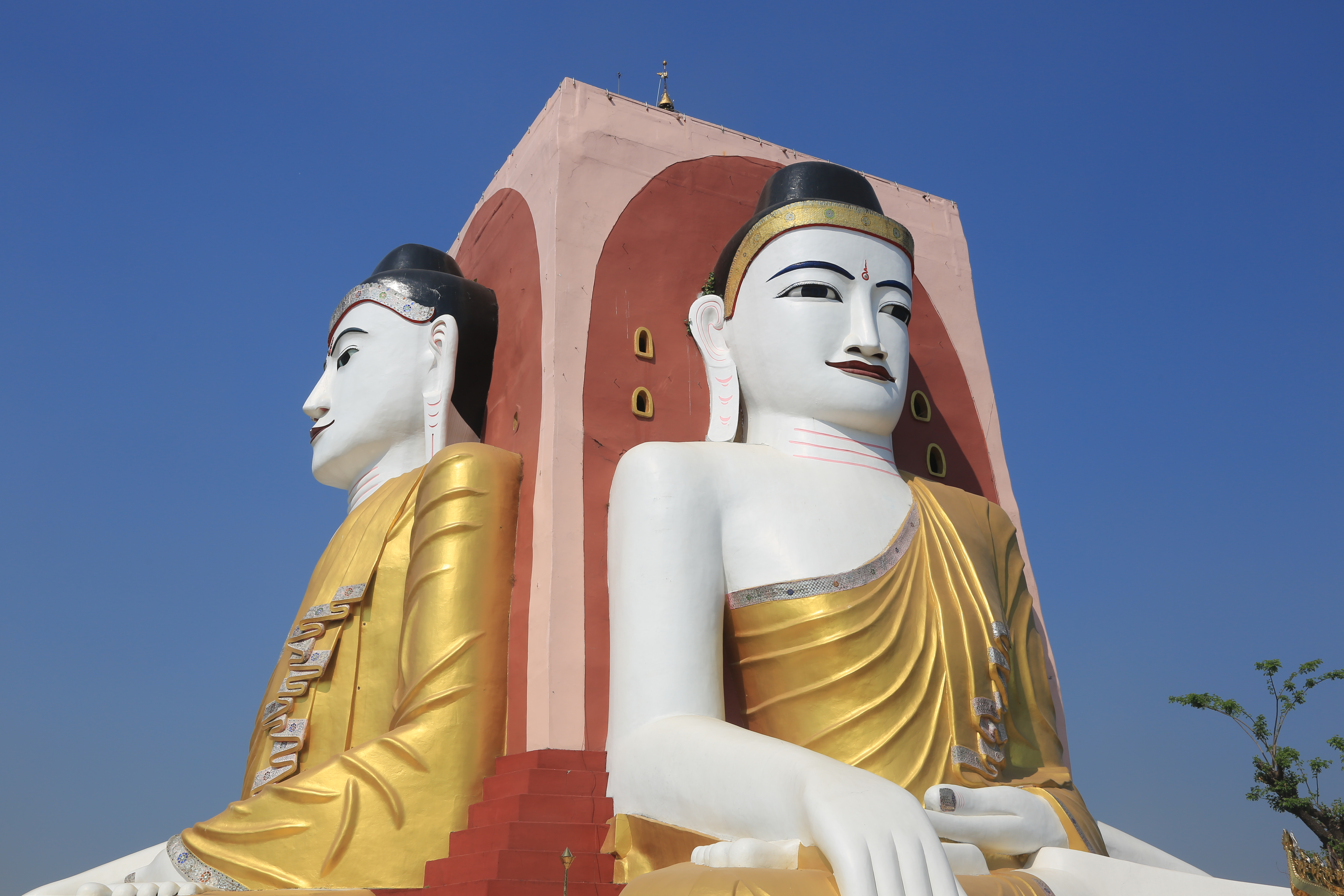 The 4 seated Buddhas at the centre of the temple Kyaik Pun Paya in Bago, Myanmar